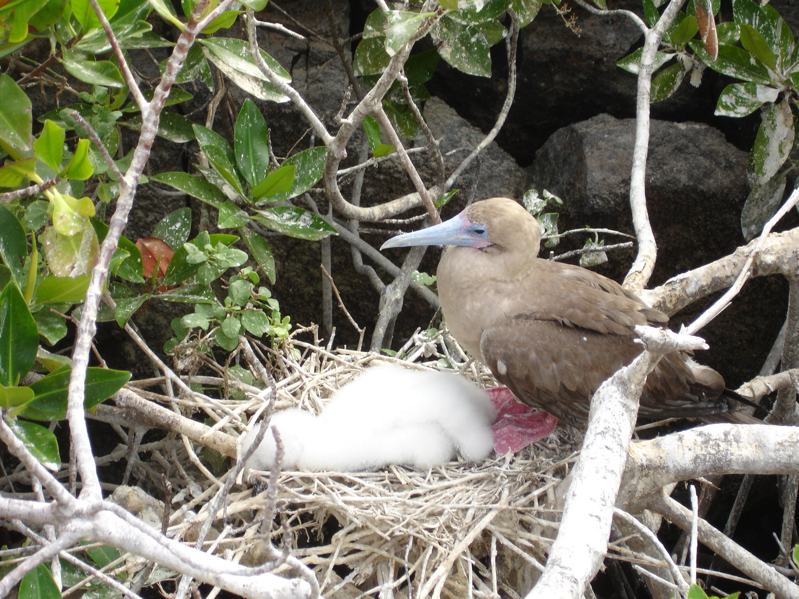 Red-footed Booby (Sula sula). Adult on a nest in a tree with two chicks.